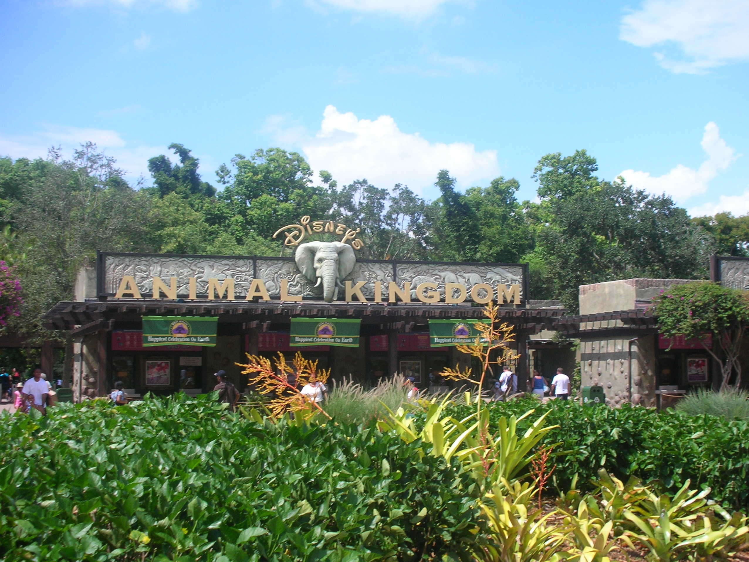 Entrance to Disney's Animal Kingdom at the Walt Disney World Resort, Florida, United States